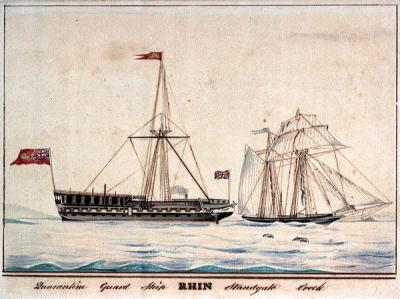 A quarantine ship out near Sheerness (Standgate Creek) - one of the earliest and longest-used forms of defence against sea-borne disease. UK National Maritime Museum, author unknown.